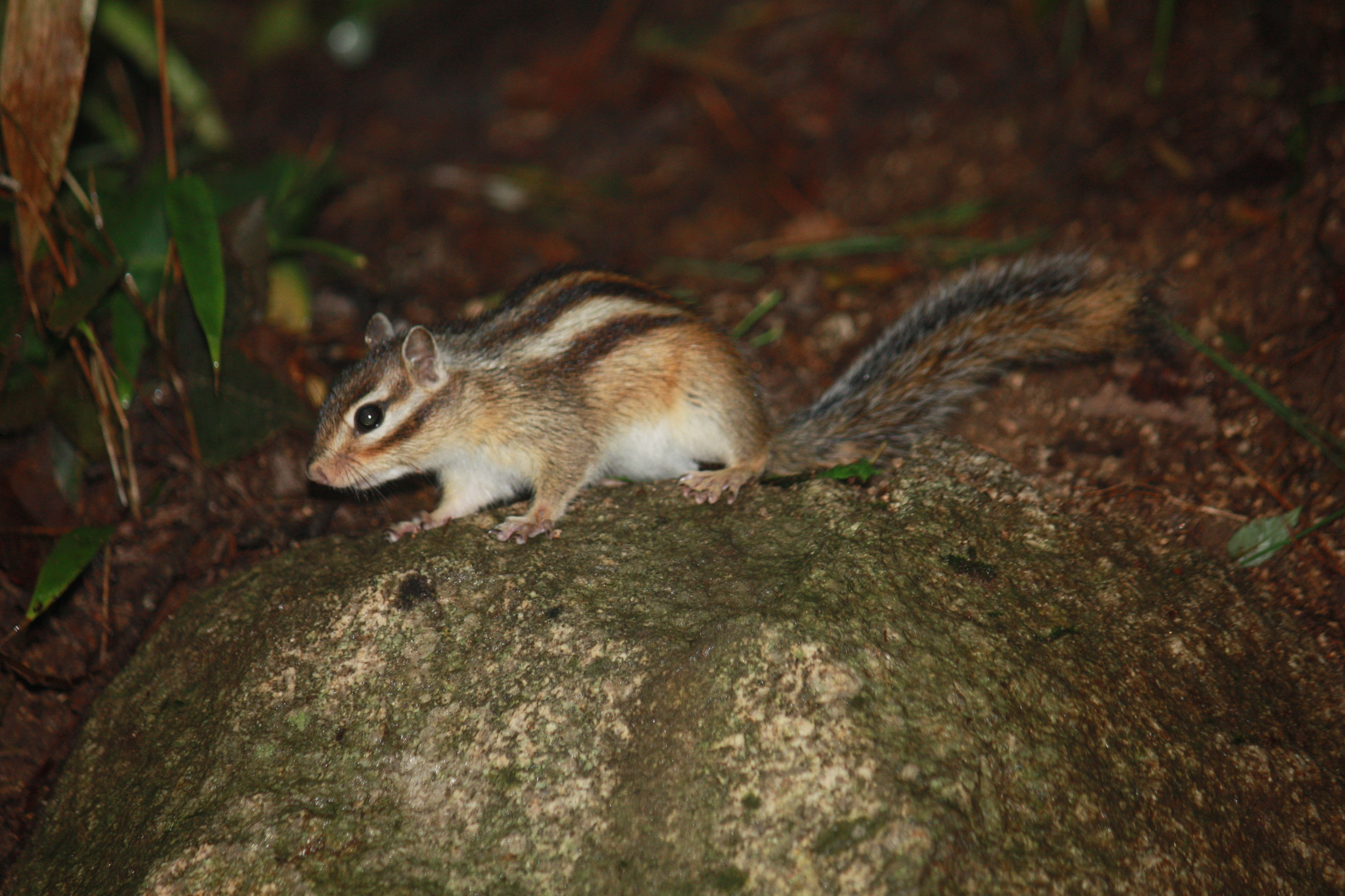 Siberian Chipmunk (Tamias sibiricus) in Gyeongju, South Korea